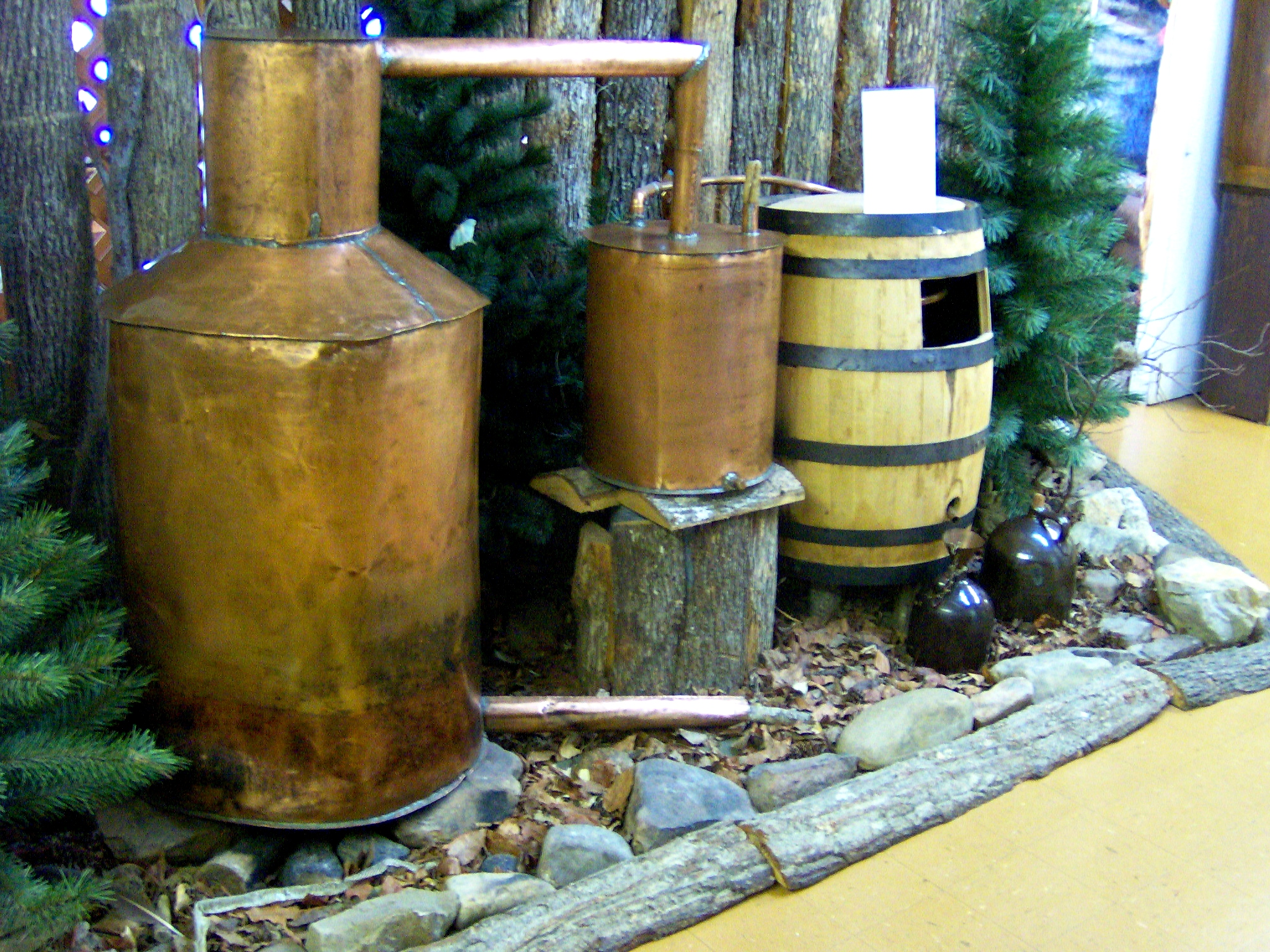 Moonshine still at the McCreary County Museum in Stearns, Kentucky, USA. The still (mash pot, arm, and thump keg) was provided by the McCreary County Sheriff's Department. Locals provided the barrel, jugs, and setting to simulate a typical still site appearance. The sign atop the wooden barrell is a recipe for moonshine.